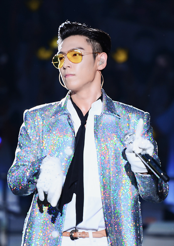 T.O.P in Big Bang concert 0.To.10 in Seoul - August 20, 2016